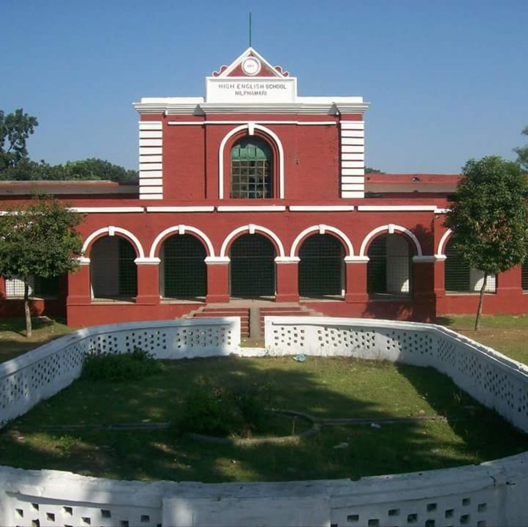 নীলফামারী সরকারি উচ্চ বিদ্যালয়